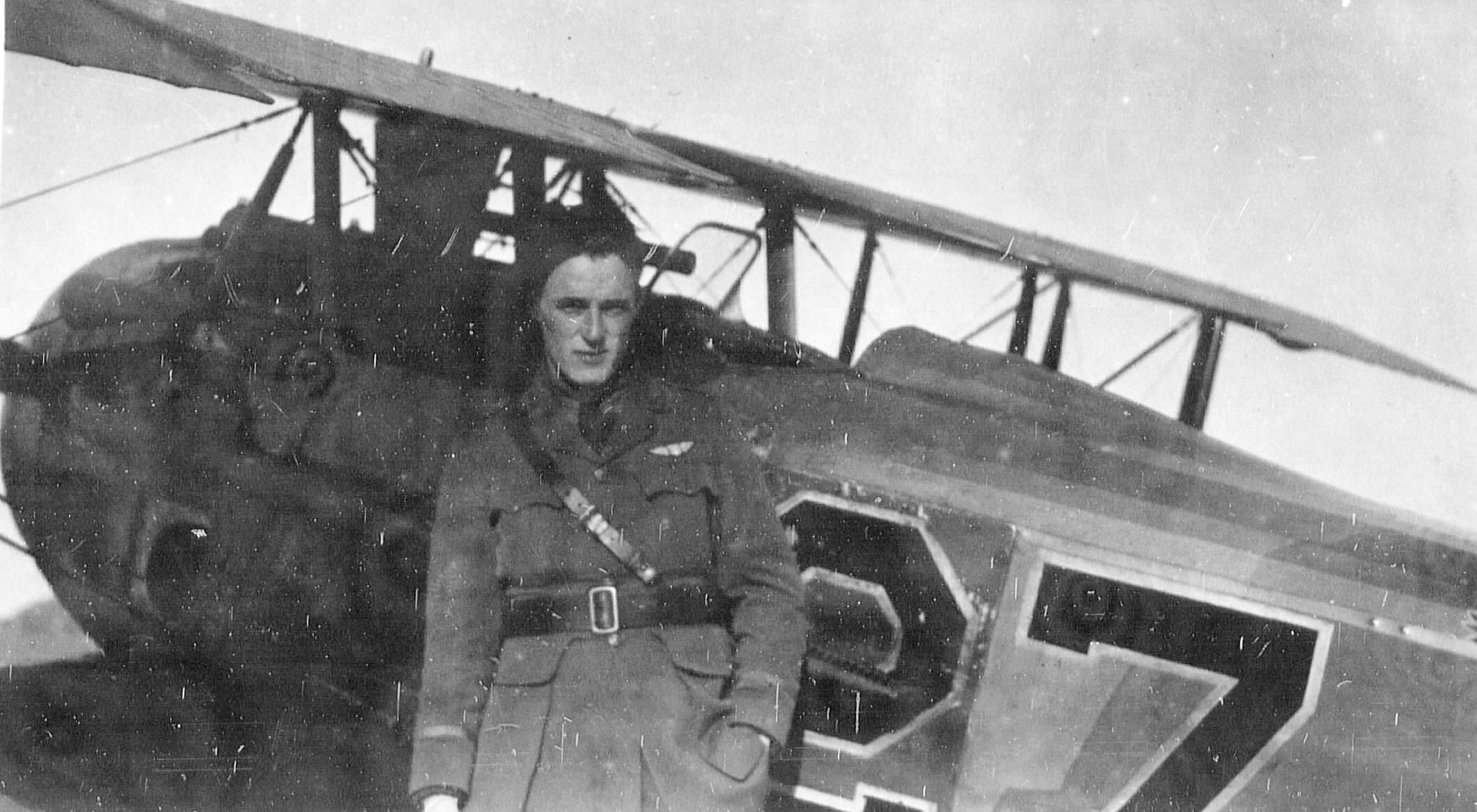 Lt Roger W. “Cap” Rowland of the 27th Aero Squadron with his Nieuport 28, August 1918. Rowland was a hero in his hometown of Springfield, MA, he was credited with shooting down three planes and unofficially with downing nine others in 15 air combats.